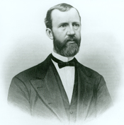 Former United States Representative from Delaware John A. Nicholson.